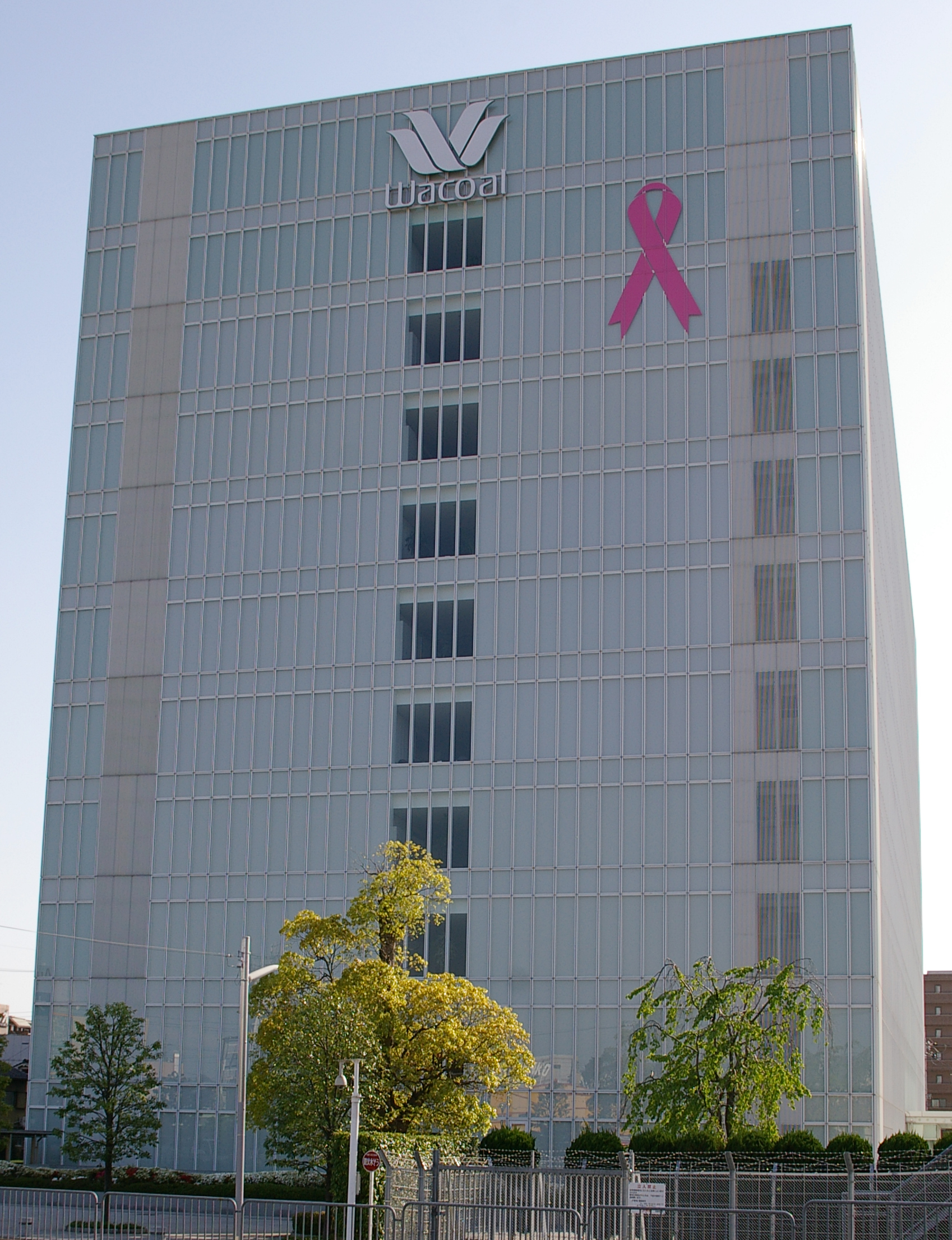 Photograph of headquarters of Wacoal Corporation with pink ribbon in Minami-ku, Kyoto, Kyoto Prefecture, Japan.